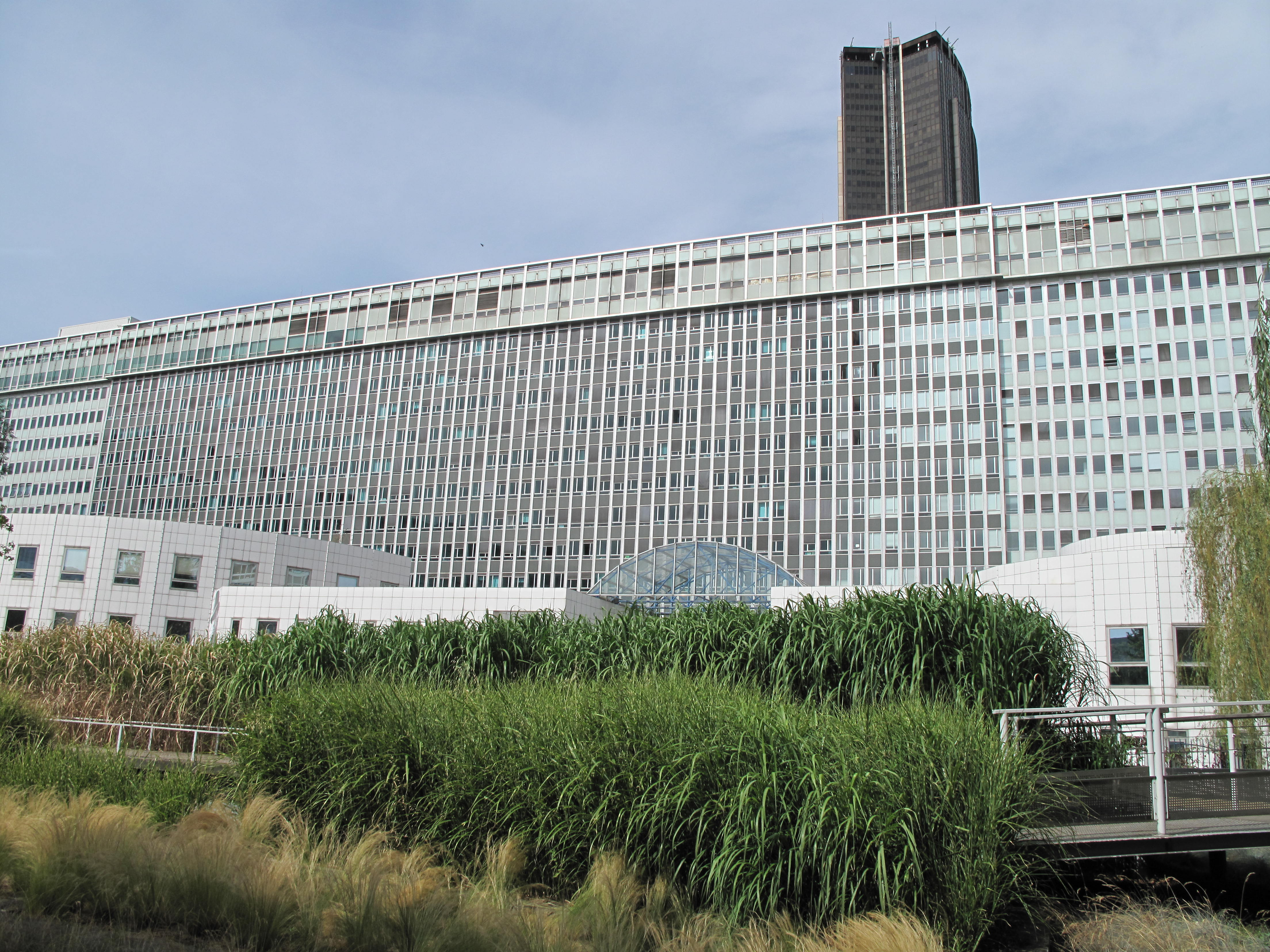 Jardin Atlantique above railways of the gare Montparnasse, Paris